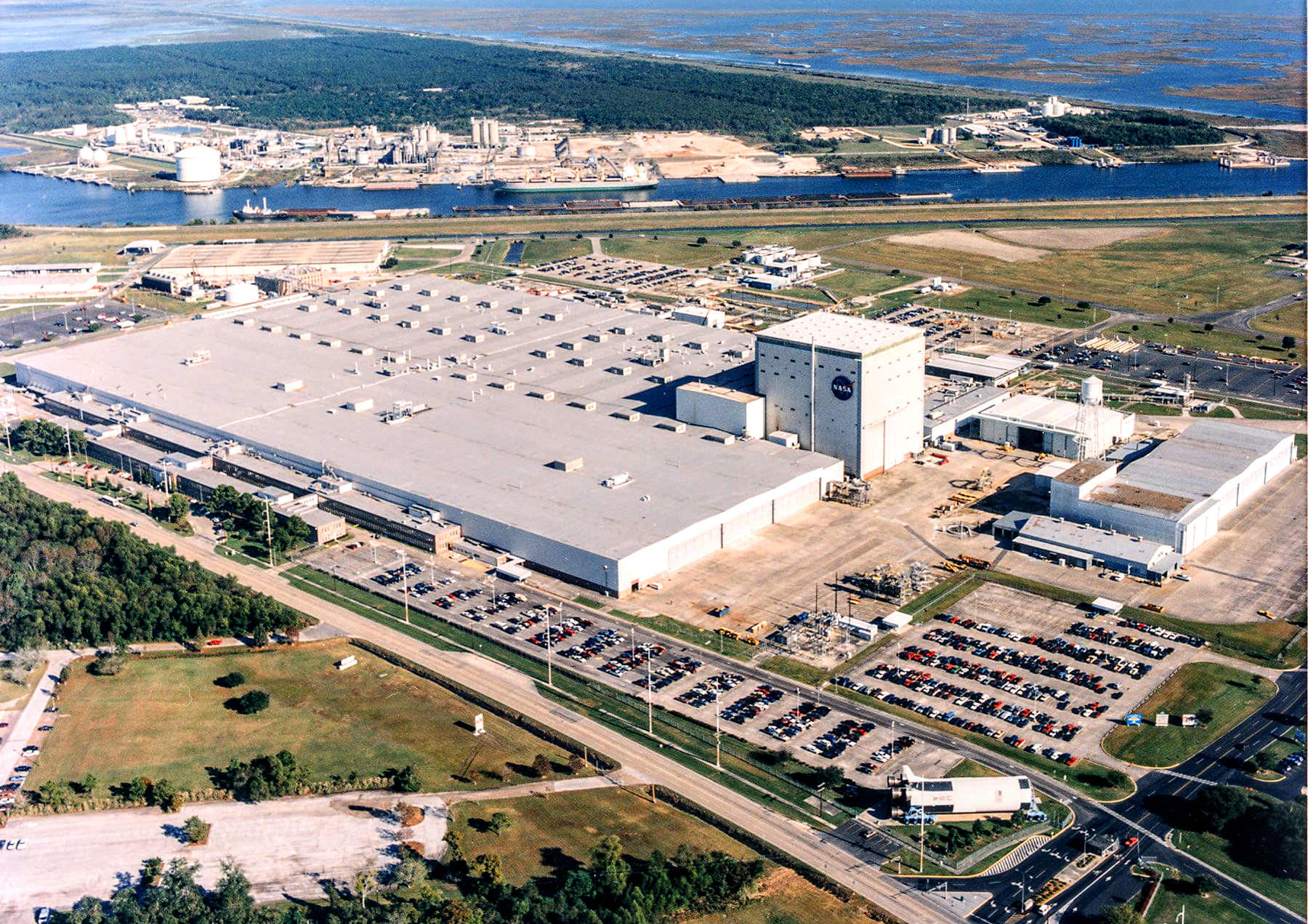 NASA's Michoud Rocket Factory Complex from a helicopter at 1700 feet. c 1990 Other information Original image enhanced